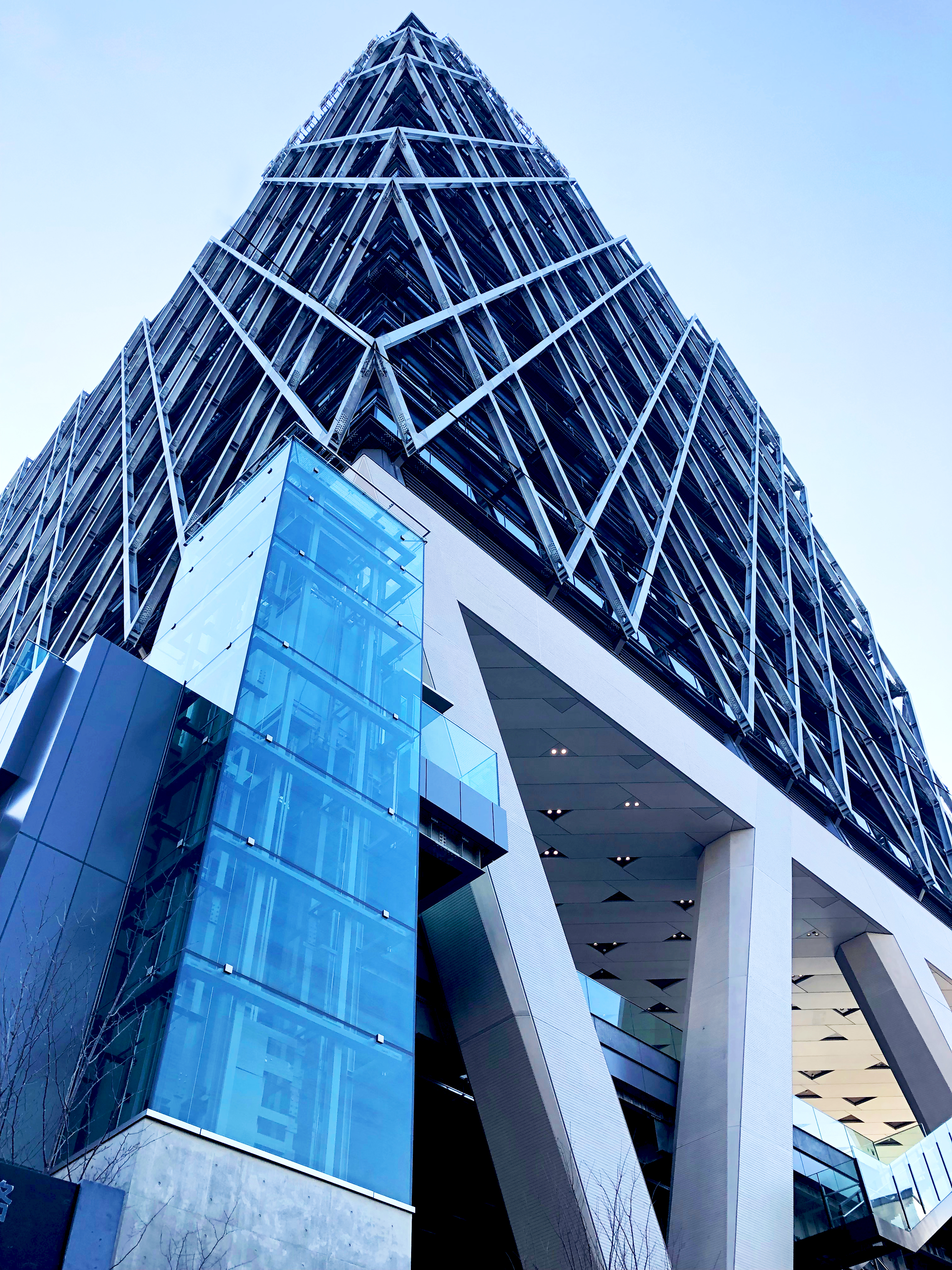 corestaff head office